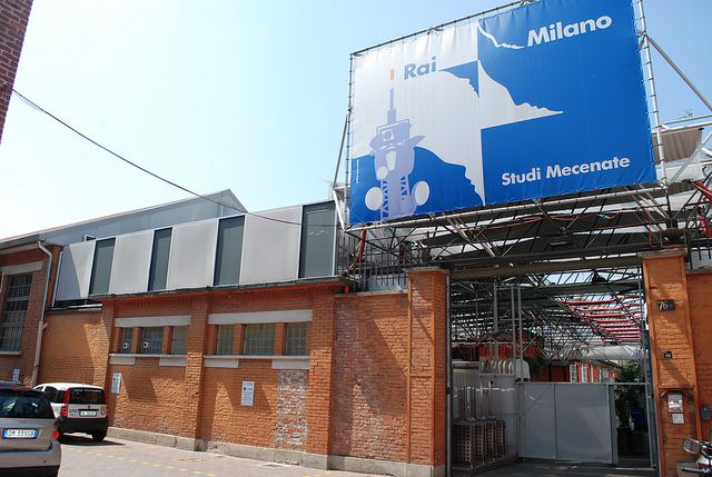 Production Rai center of Via Mecenate